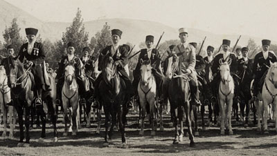 An original photograph from Damascus of the Circassian troops during the French mandate with Colonel Collet, Commander of the Circassian Cavalry. Colonel Collet was instrumental in the defeat of the Vichy French troops by collaborating with the free French army led by De Gaulle and the British allies. Collet's role was uncovered by Radio Ankara, repeated by the BBC, and taken up by brazzaville, prompting Dentz (commander of Vichy French army in Syria) to issue orders to arrest Collet. It was said that Collet's wife was British and hence his cooperation with the British and De Gaulle. On 8th June 1941 at 2AM, British, Australian and free free French forces crossed into Syria and Lebanon. (source: fulfilment of a mission by Major-General Sir Edward Spears).